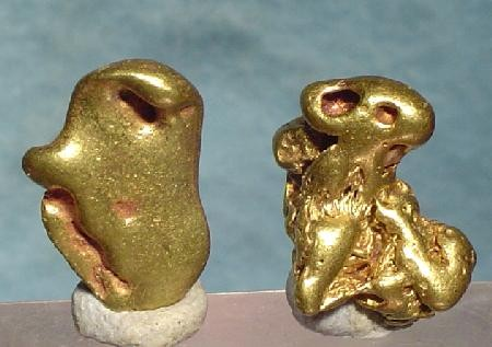 Gold Locality: Mother Lode (Mother Lode belt), Tuolumne County, California, USA (Locality at ) Size: 1.6 x 1.1 x 0.3 cm (largest). A 2-piece set from the Mother Lode District of California. Two large, sculptural and flattened, river-worn gold nuggets with rich gold lustre and color comprise this set.